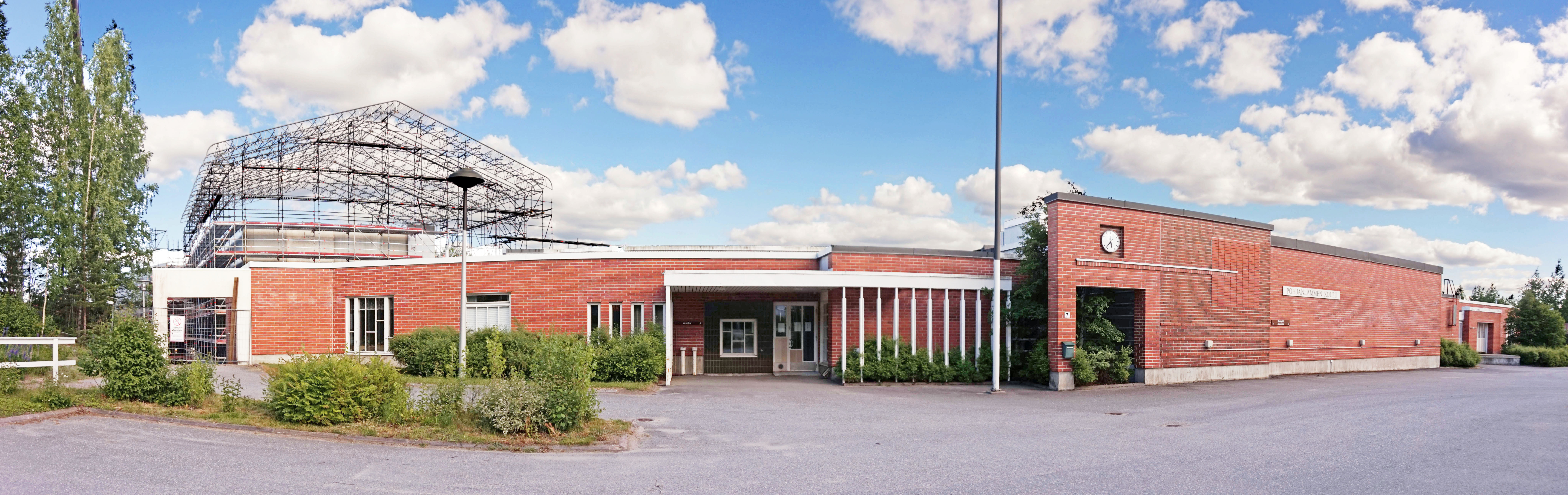 Pohjanlampi school in Jyväskylä, Finland.This photograph was taken with a Sony ILCE-5000